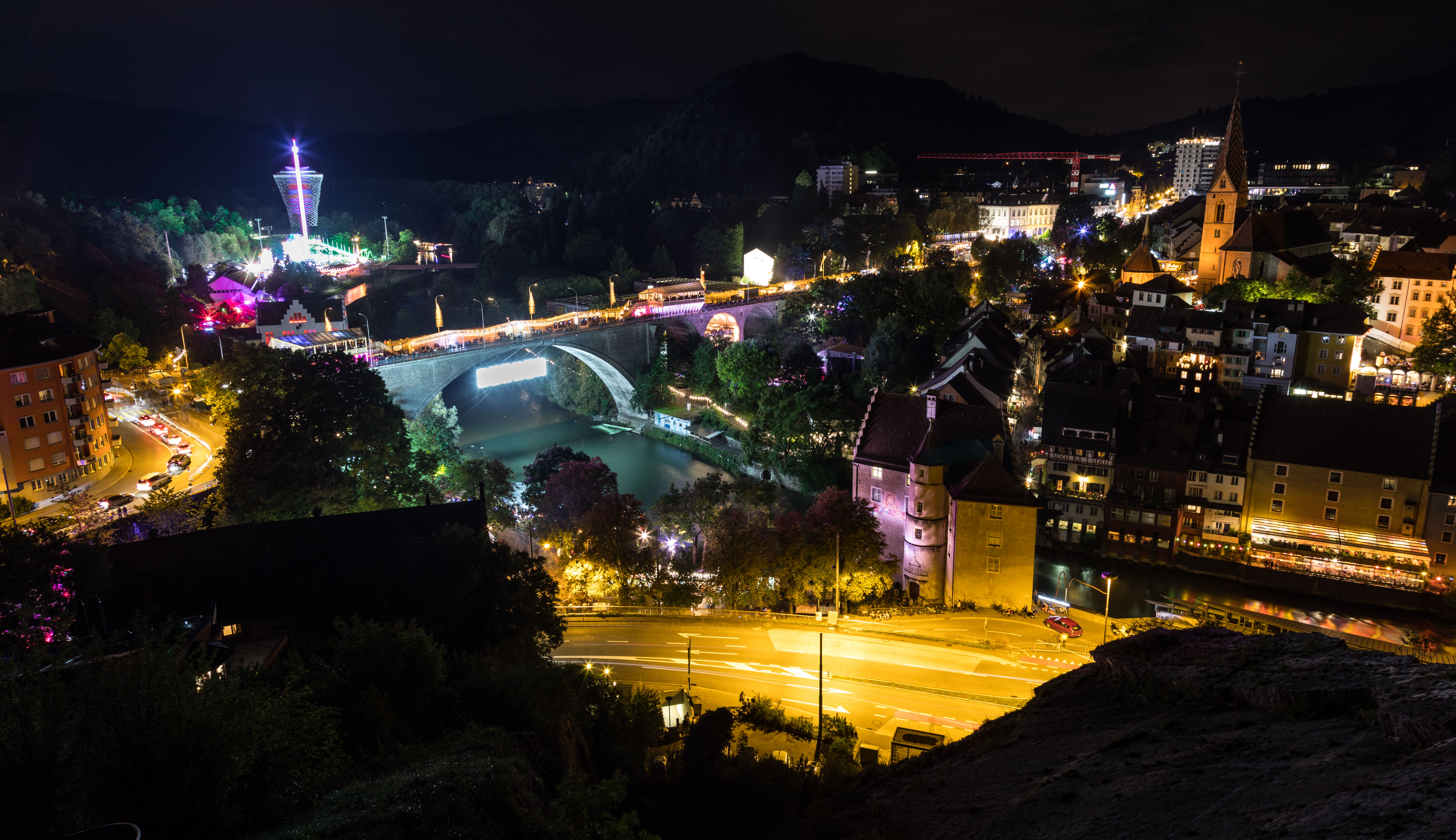 View on the Badenfahrt 2017 festival area around the Hochbrücke